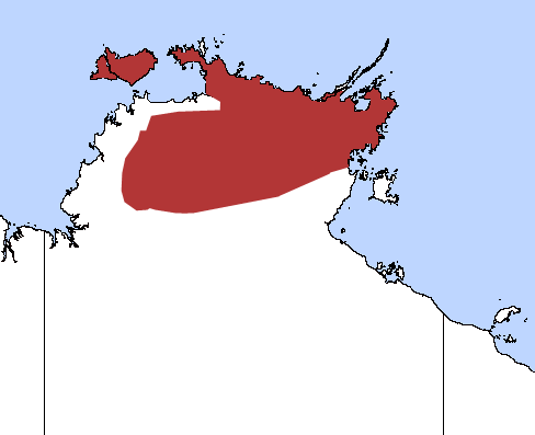 The Fawn Antechinus's Distribution.